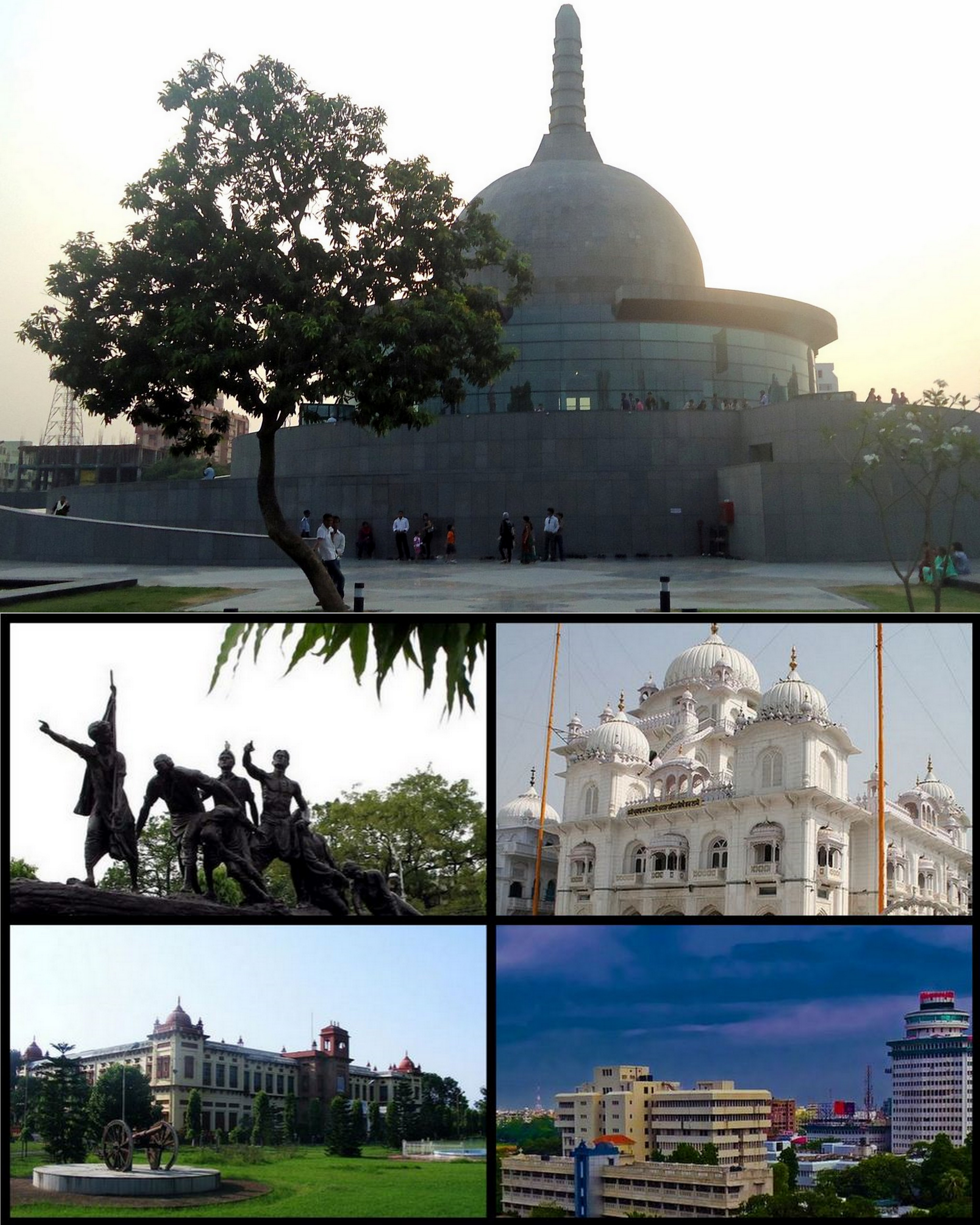 Buddha Memorial Park- Shahid Smarak- Harmandir Saheb- Patna Museum- Biskoman Bhawan-File:Biskoman_Bhawan_,patna.jpg